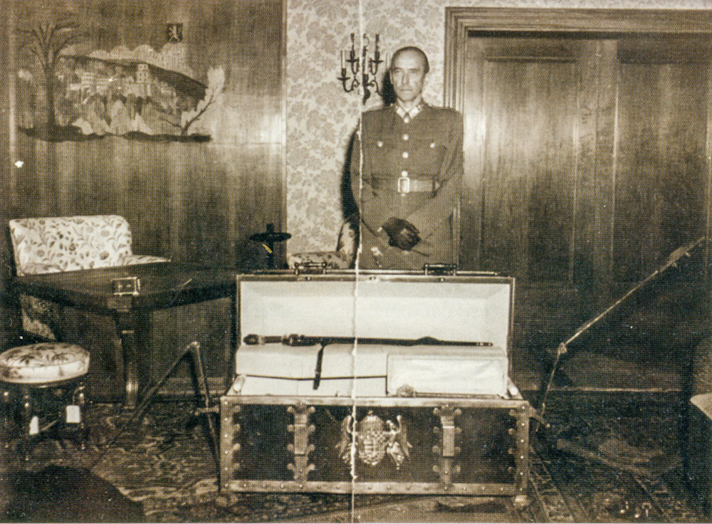 Ernő_Pajtás,_Guard_of_the_Crown,_with_the_case_of_the_crown in Heidelberglabel QS:Len,"Ernő_Pajtás,_Guard_of_the_Crown,_with_the_case_of_the_crown in Heidelberg" label QS:Lhu,"Pajtás Ernő koronaőr a Szent Korona ládájával Heidelbergben"